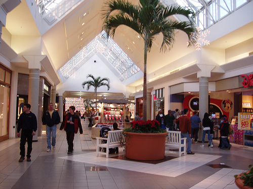 Former Wanamaker/Lord & Taylor wing of the Christiana Mall, prior to renovations and transformation into the Target wing.